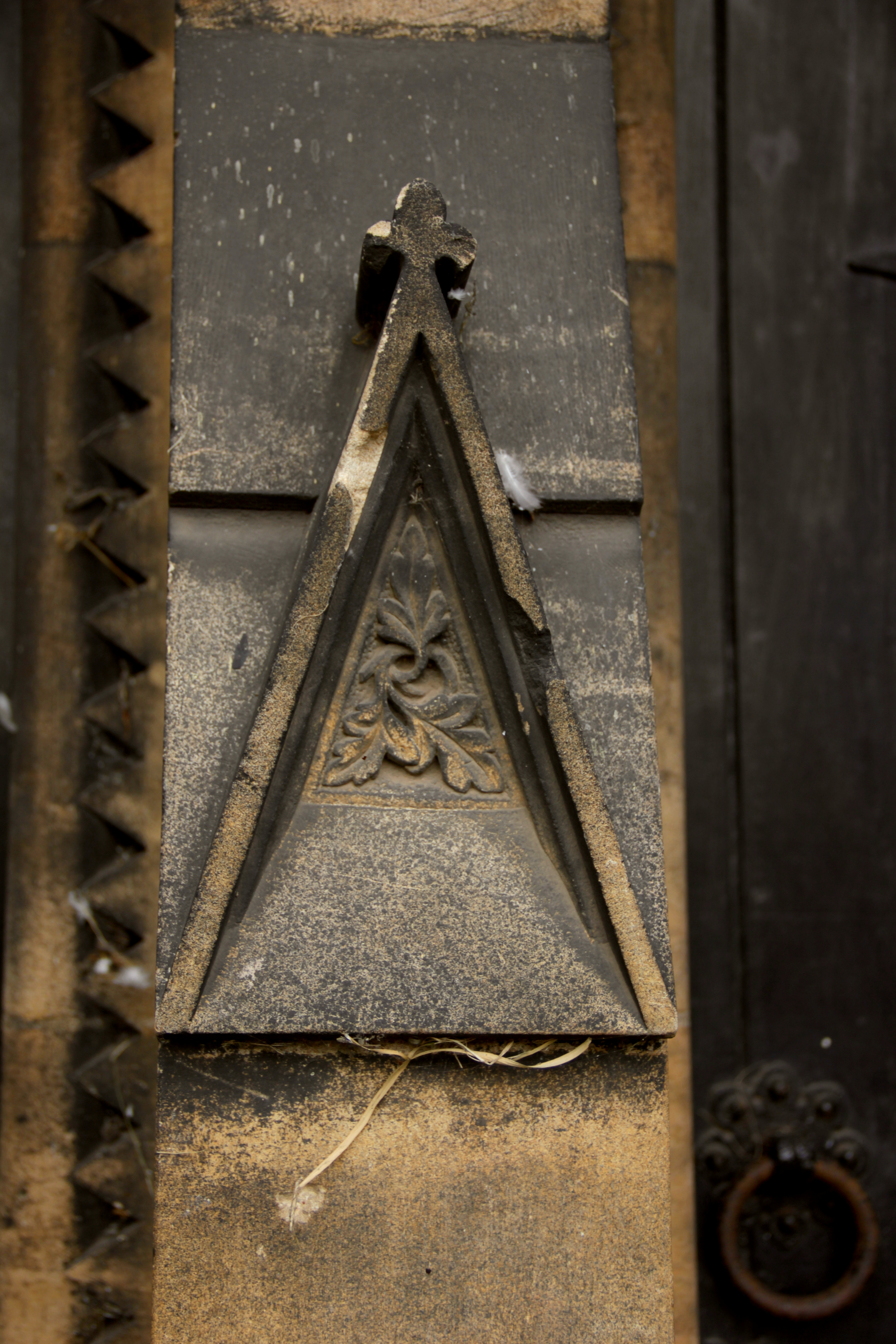 Holy Trinity, Louth, Lincolnshire, was designed by local architects C. Rogers & Marsden. It was consecrated in 1866, but completed several years before that. The nave burned down in 1991, but the tower remains. The nave was replaced by the modern-style Trinity Centre. All the carving on the present tower and the former nave was carried out by Mawer & Ingle of Leeds. Showing decoration on jamb between the doors, at the north double door of the tower.